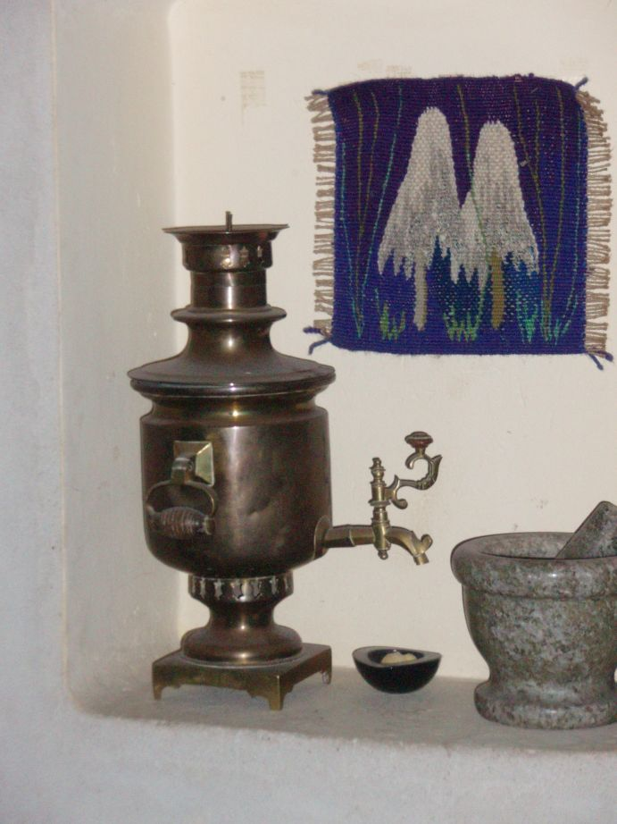 little Samovar of cylindrical type for home use